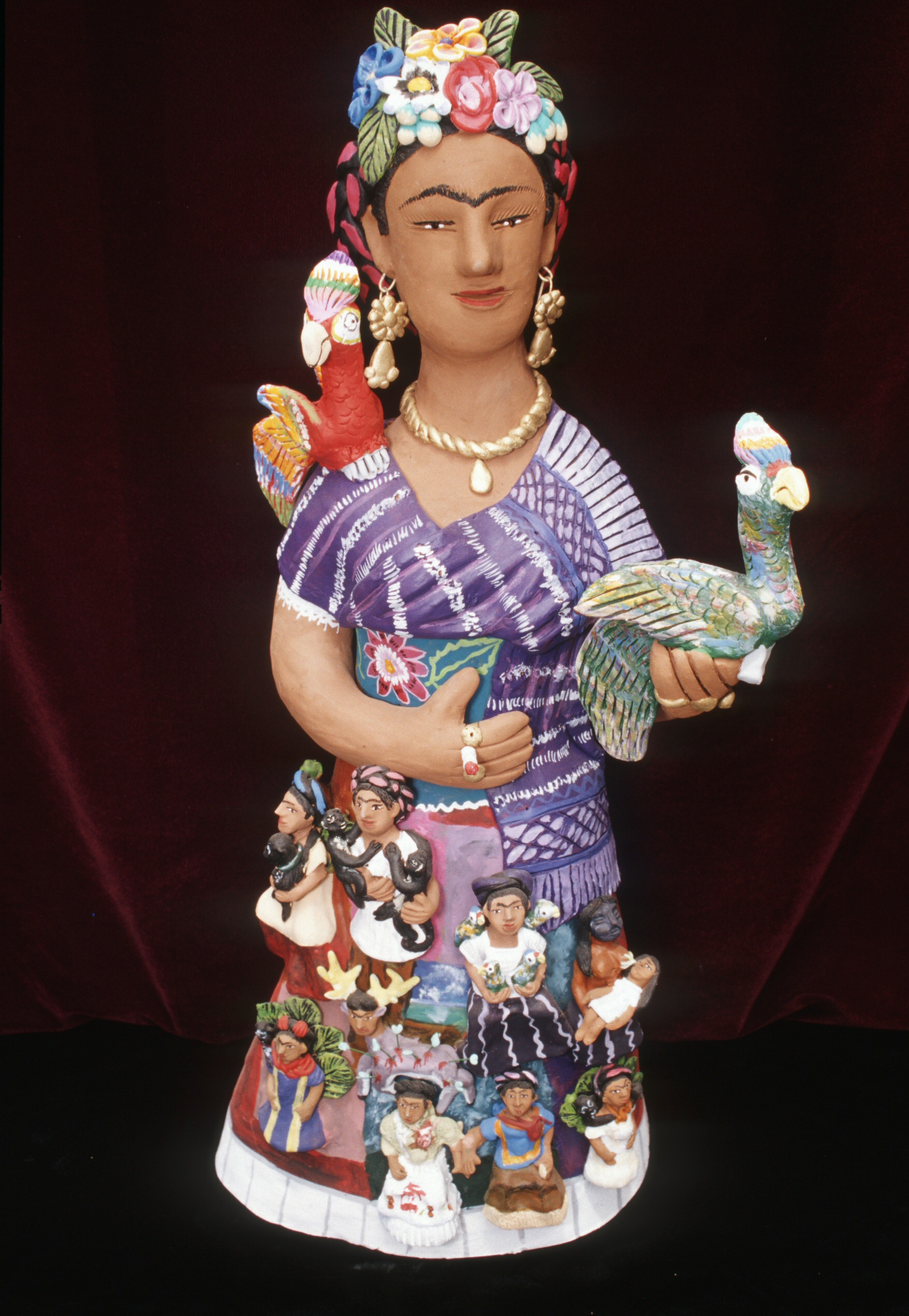 Frida figure by Josefina Aguilar Alcantara of the Aguilar family of Ocotlán de Morelos, Oaxaca Mexico